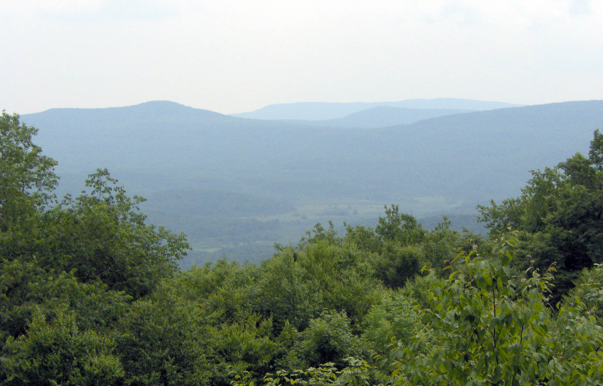 Overview of Cranberry Glades and Cranberry Wilderness, Monongahela National Forest, West Virginia